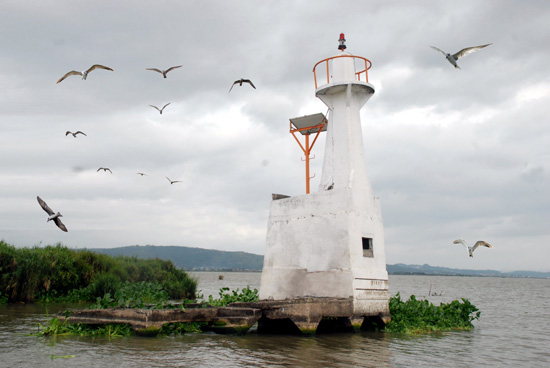 Parola in Napindan, Taguig City, Philippines